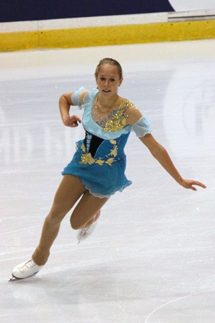 Manouk Gijsman at the 2009-2010 Junior Grand Prix Lake Placid